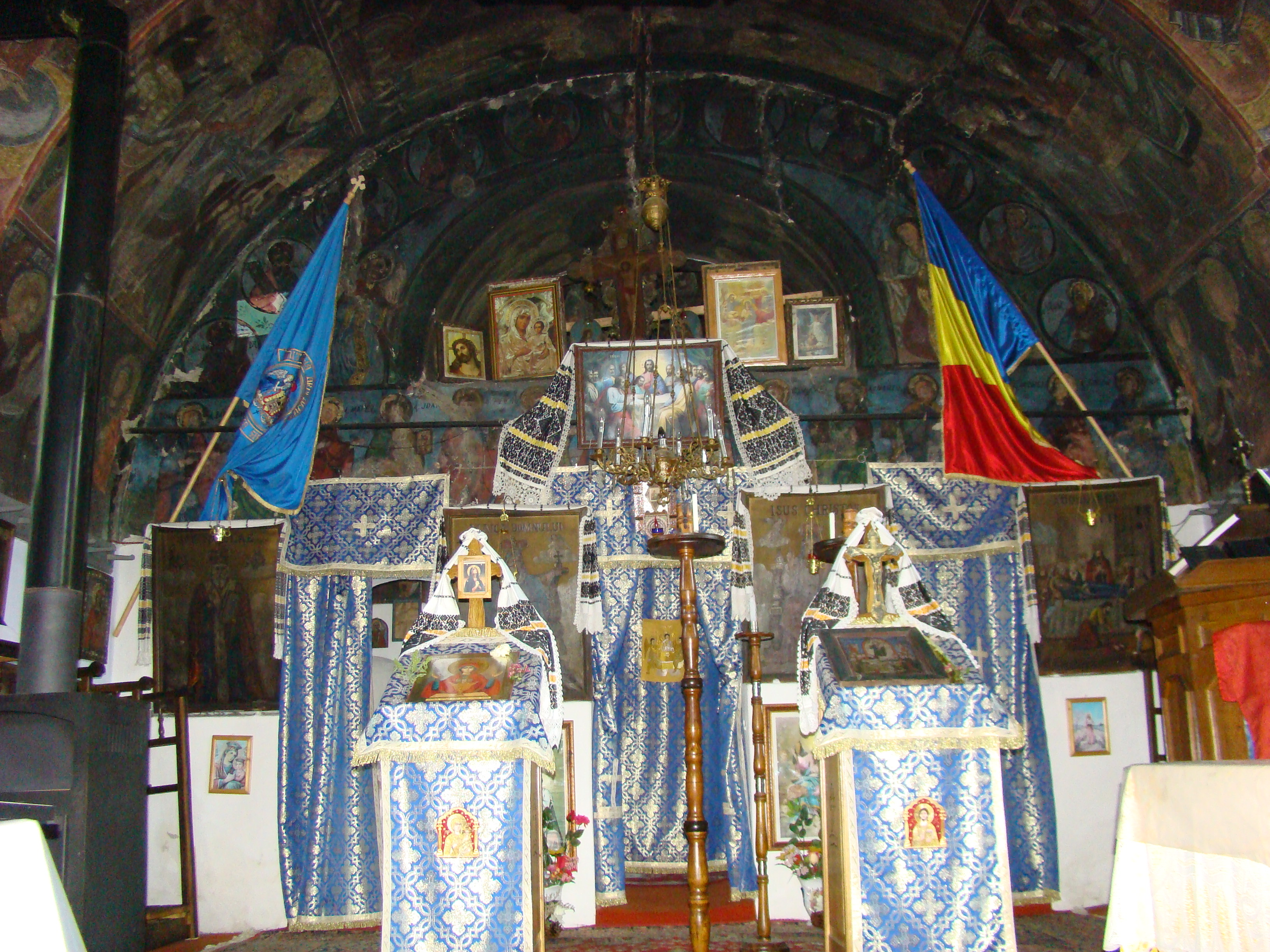 The old orthodox church „Dormition of the Theotokos” in Săsăuș, Sibiu county, Romania